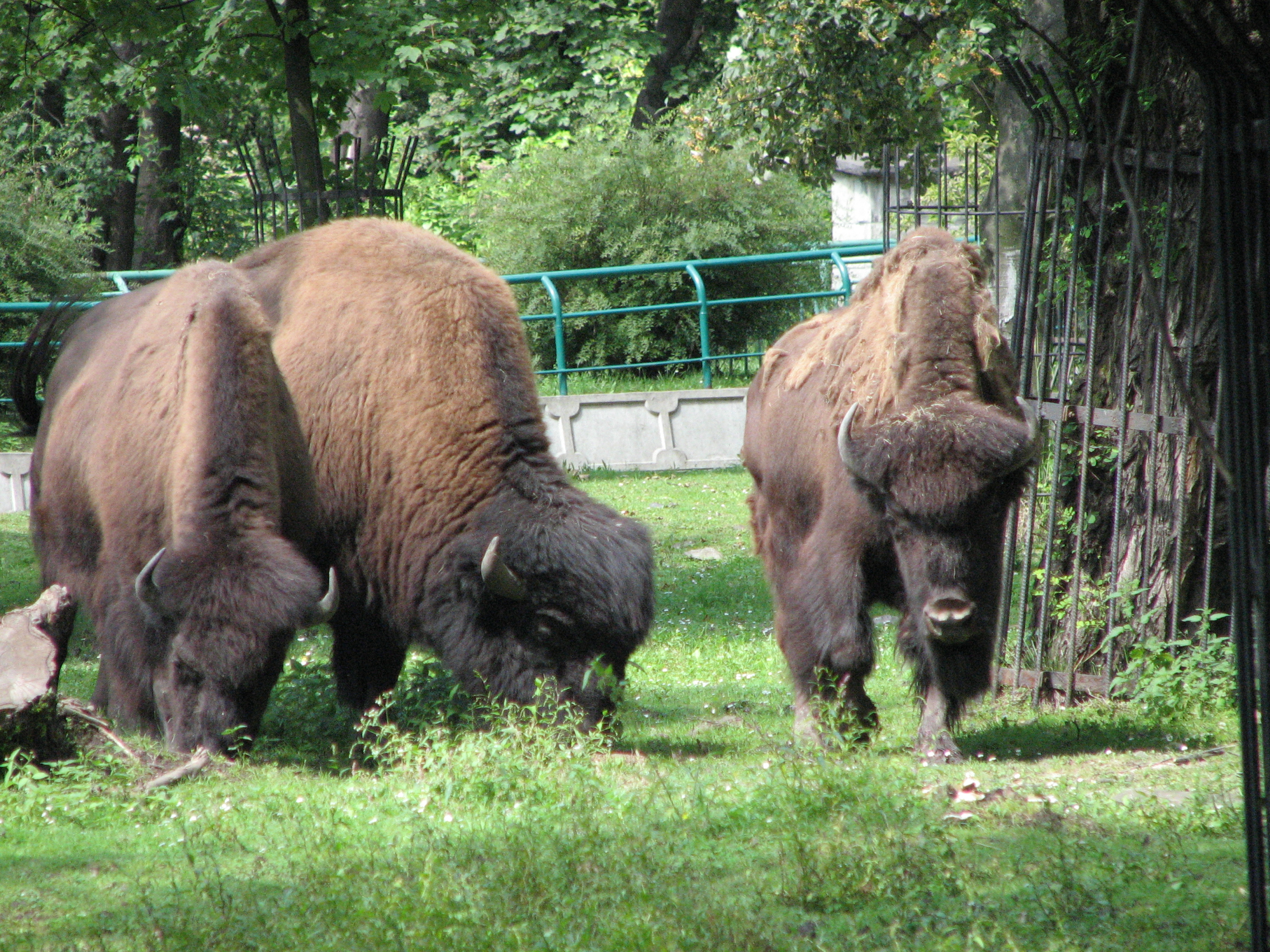 Silesian Zoological Garden, Chorzów, Poland